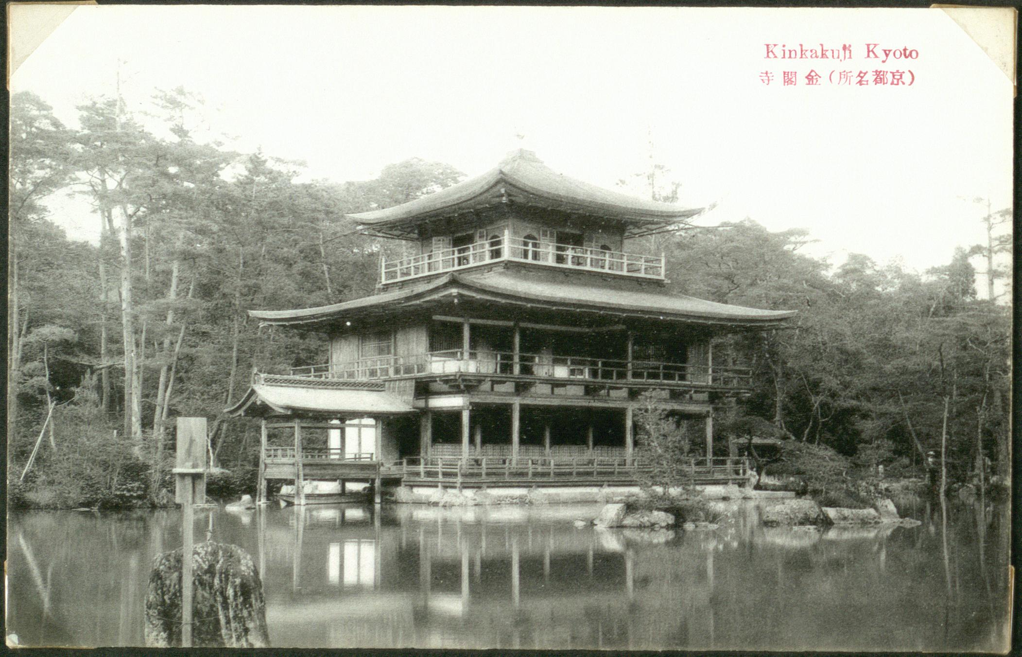 Postcard, which have belonged to Dr Kurt Wulff. No. es_b_00567